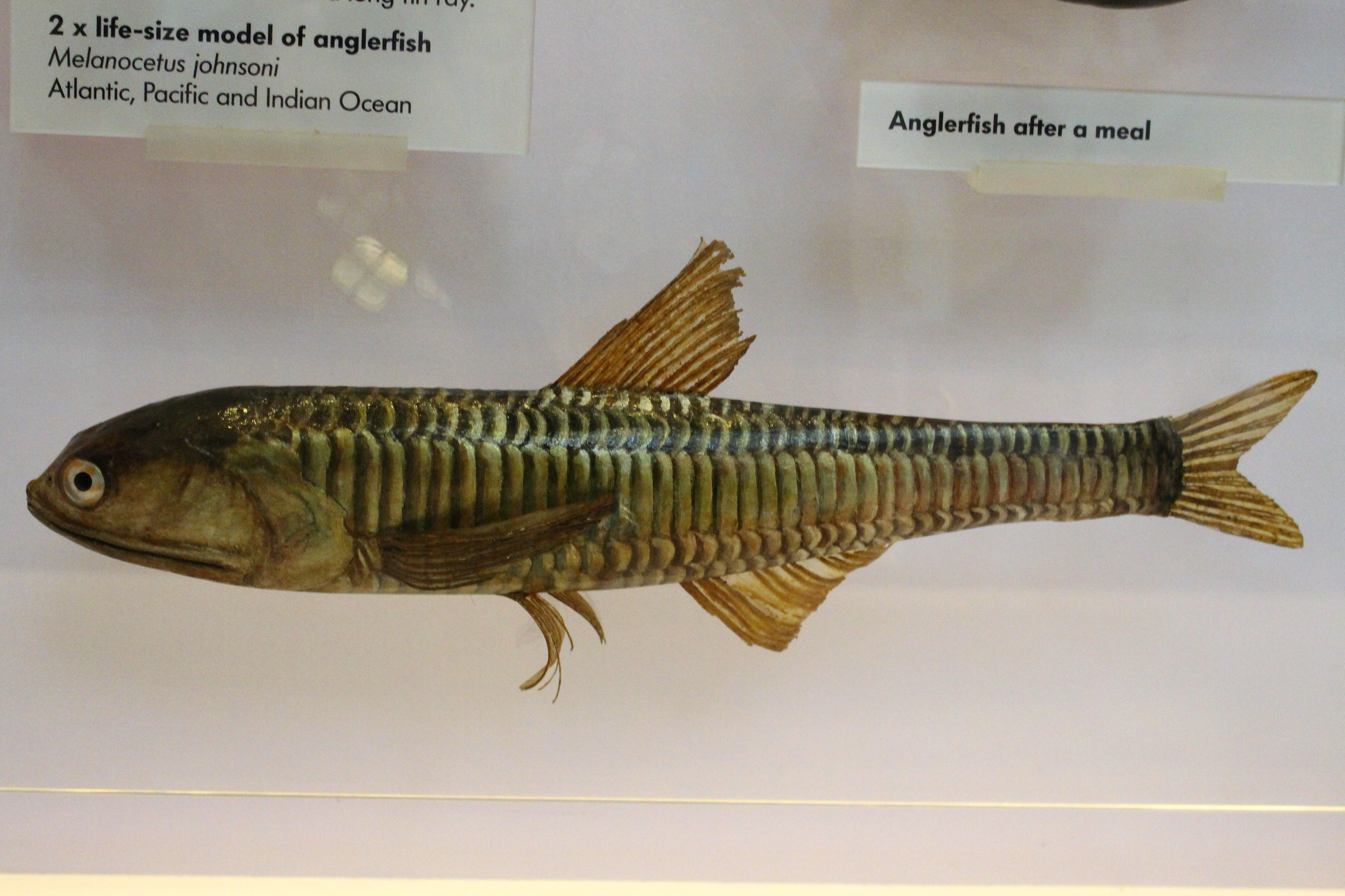 Jewel lanternfish (Lampanyctus crocodilus) model at the Natural History Museum in London, England.